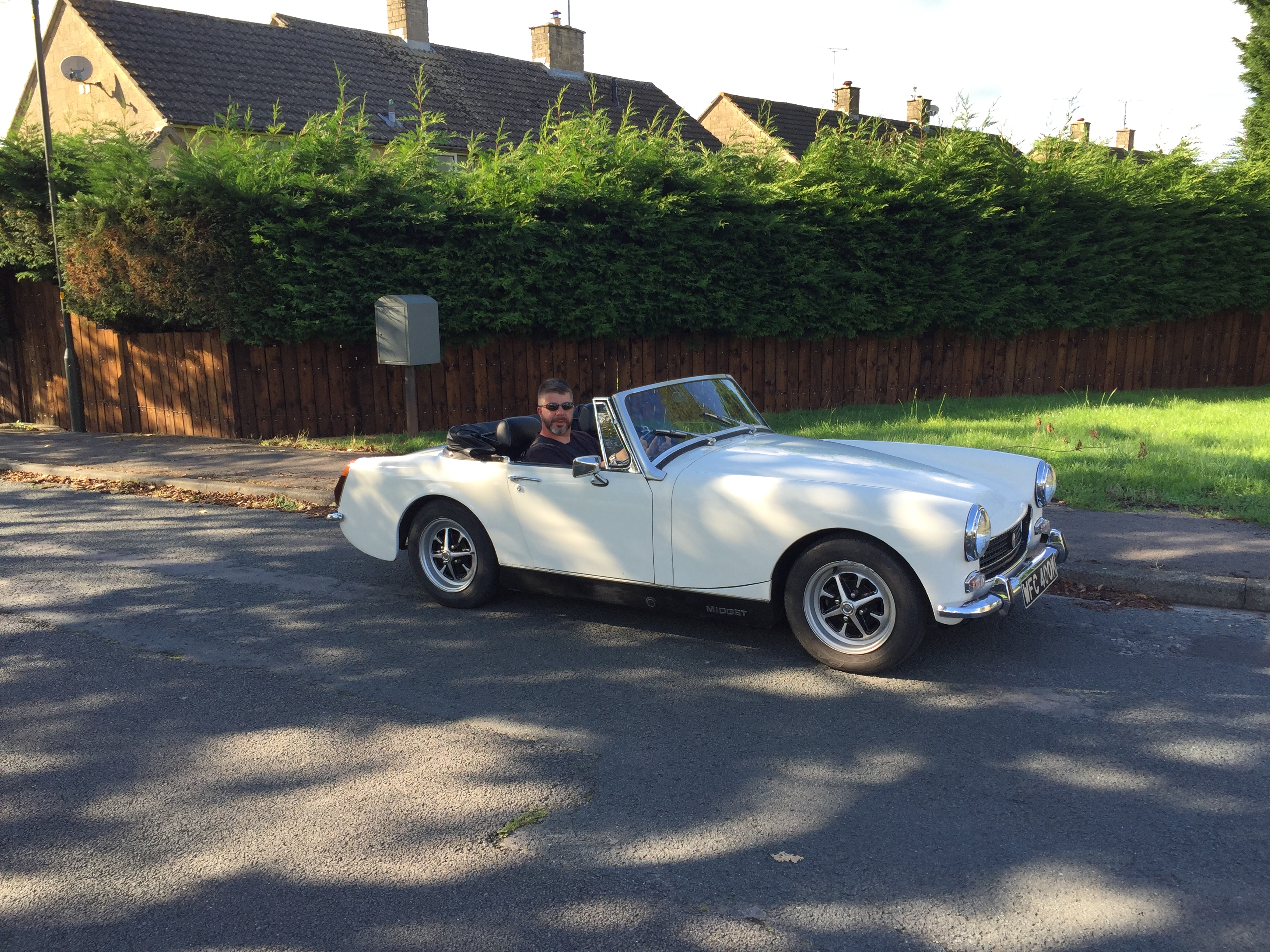 Mg midget from 1972